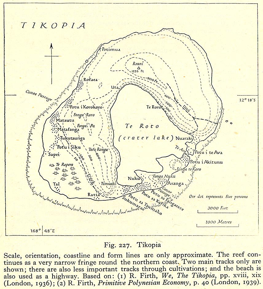 historical map of Tikopia Island, Solomon Islands